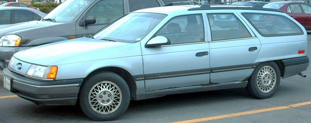 1986-1991 Ford Taurus wagon photographed in Montreal, Quebec, Canada.